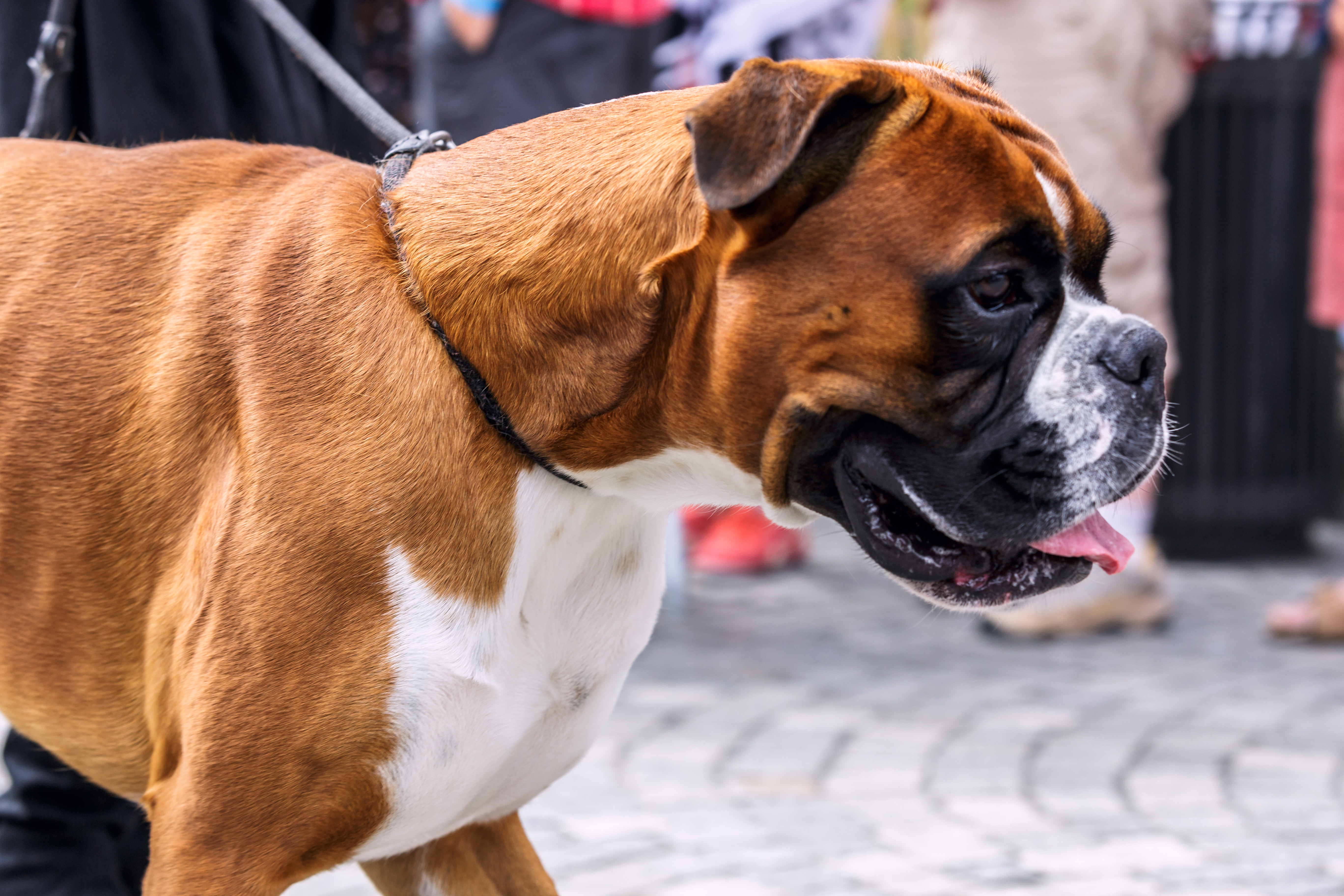 Parade of Breton folk groups during the 2016 Cornouaille Festival in the streets of Quimper.